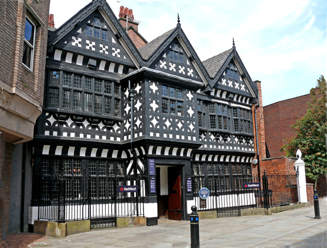 Nat West Bank Original town house of the Arden Family in Mediaeval times